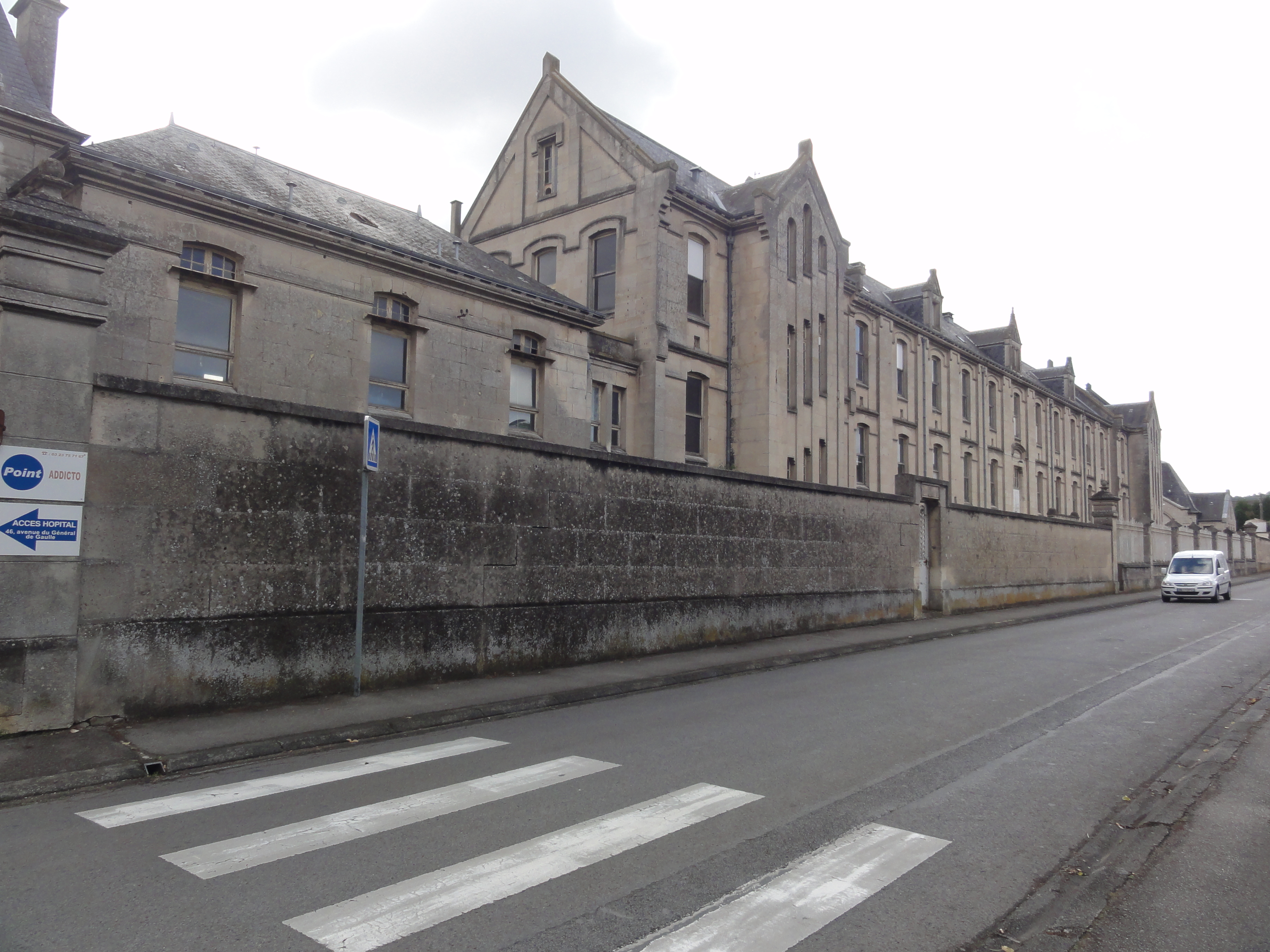 Centre hospitalier de Soissons